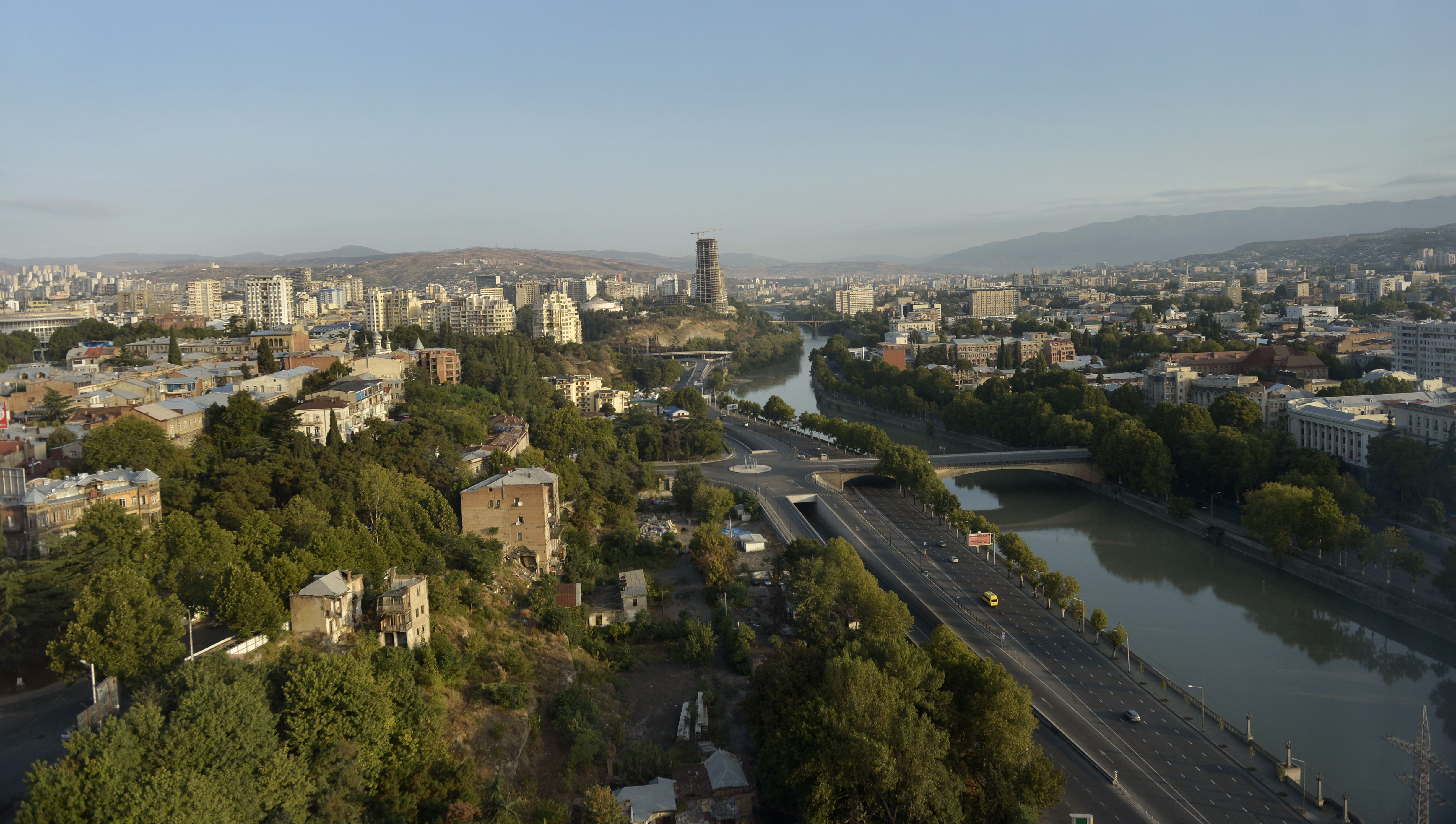 Secretary of Defense Chuck Hagel visits senior governmental officials in Tbilisi, Georgia, September 7, 2014. DoD Photo by Glenn Fawcett (Released)